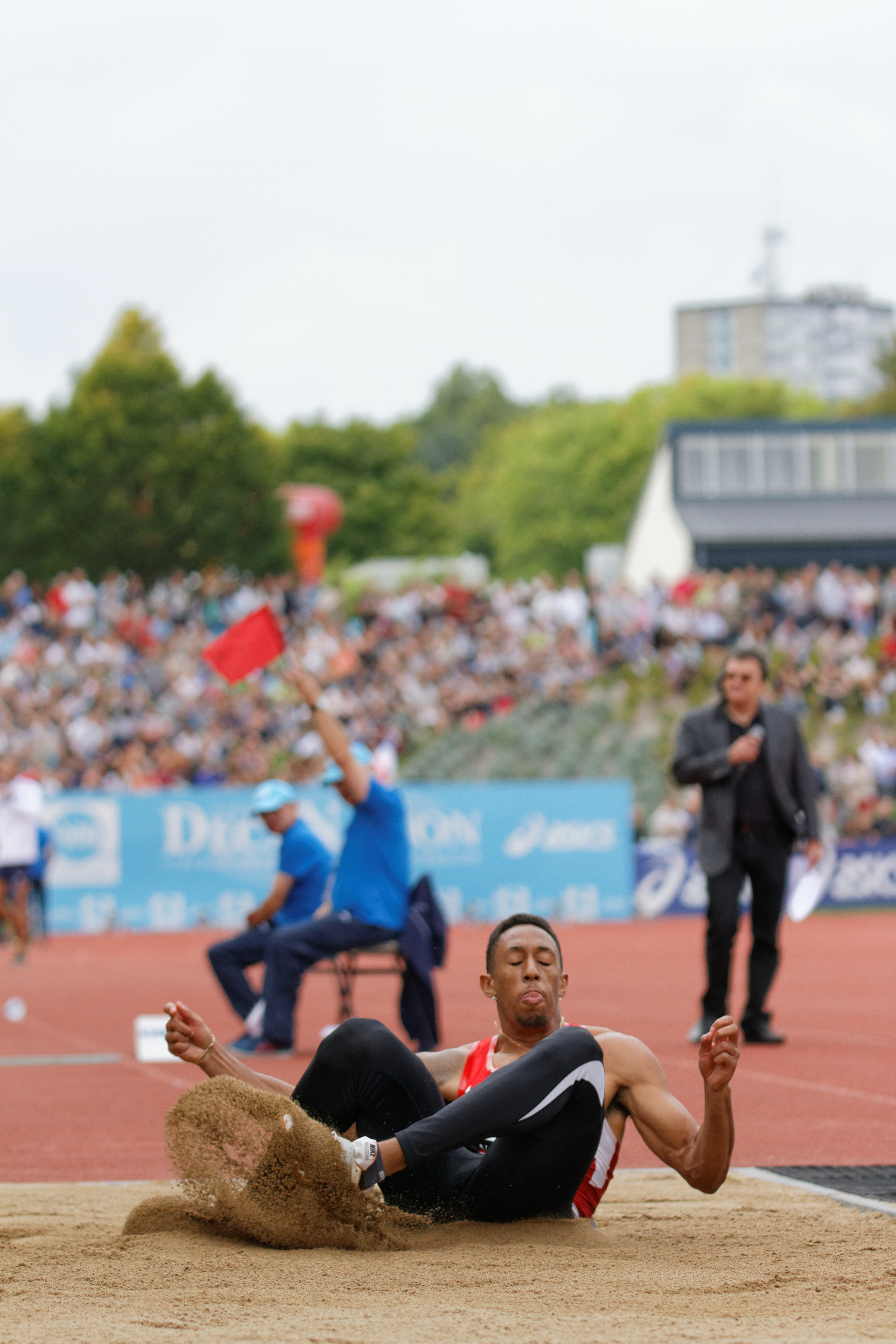 DécaNation 2014